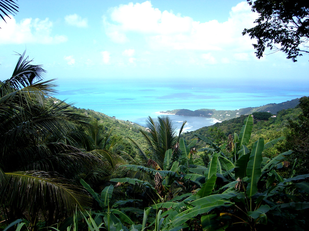 Road Town, Tortola, BVI - 2005